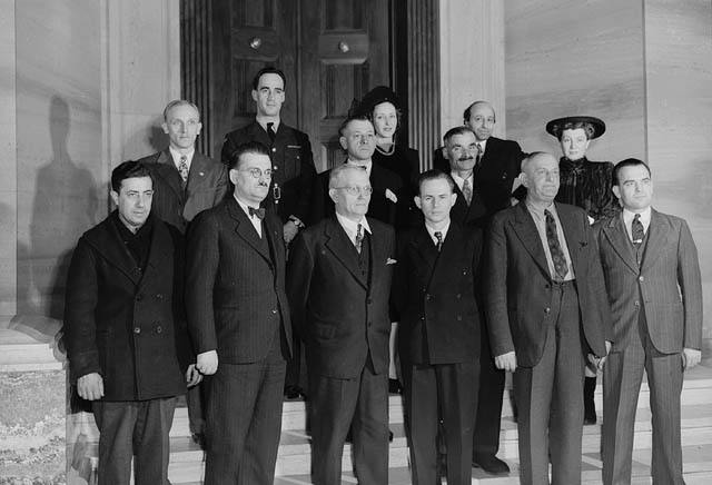 First official Canadian Citizenship ceremony at the Supreme Court building. Ottawa, Canada. (Front row: l.-r.:) Naif Hanna Azar from Palestine, Jerzy Wladyslaw Meier from Poland, Louis Edmon Brodbeck from Switzerland, Joachim Heinrich Hellmen from Germany, Jacko Hrushkowsky from Russia, and Anton Justinik from Yugoslavia. (Back row: l.-r.:) Zigurd Larsen from Norway, Sgt. Maurice Labrosse from Canada, Joseph Litvinchuk, Roumania, Mrs. Labrosse from Scotland, Nestor Rakowitza from Roumania and Yousuf Karsh from Armenia with Mrs. Helen Sawicka from Poland